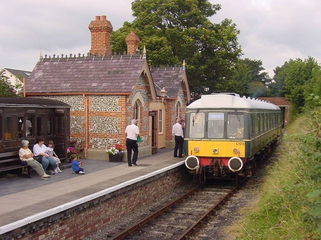 Chinnor railway station Original description: Chinnor Station Chinnor Station on the Chinnor and Princess Risborough railway line.